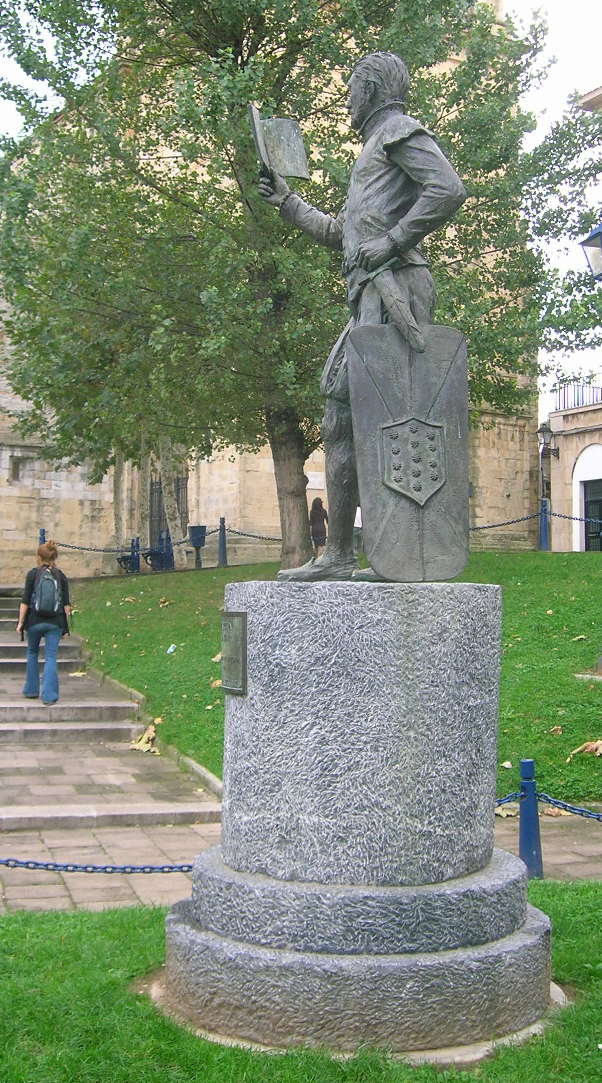 Monument to feudal lord and historian Lope Garcia de Salazar (statue by Lourdes Umerez, 2001), in Portugalete, Biscay